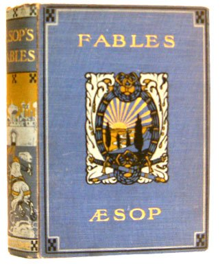 Book cover of Three Hundred Aesop's Fables